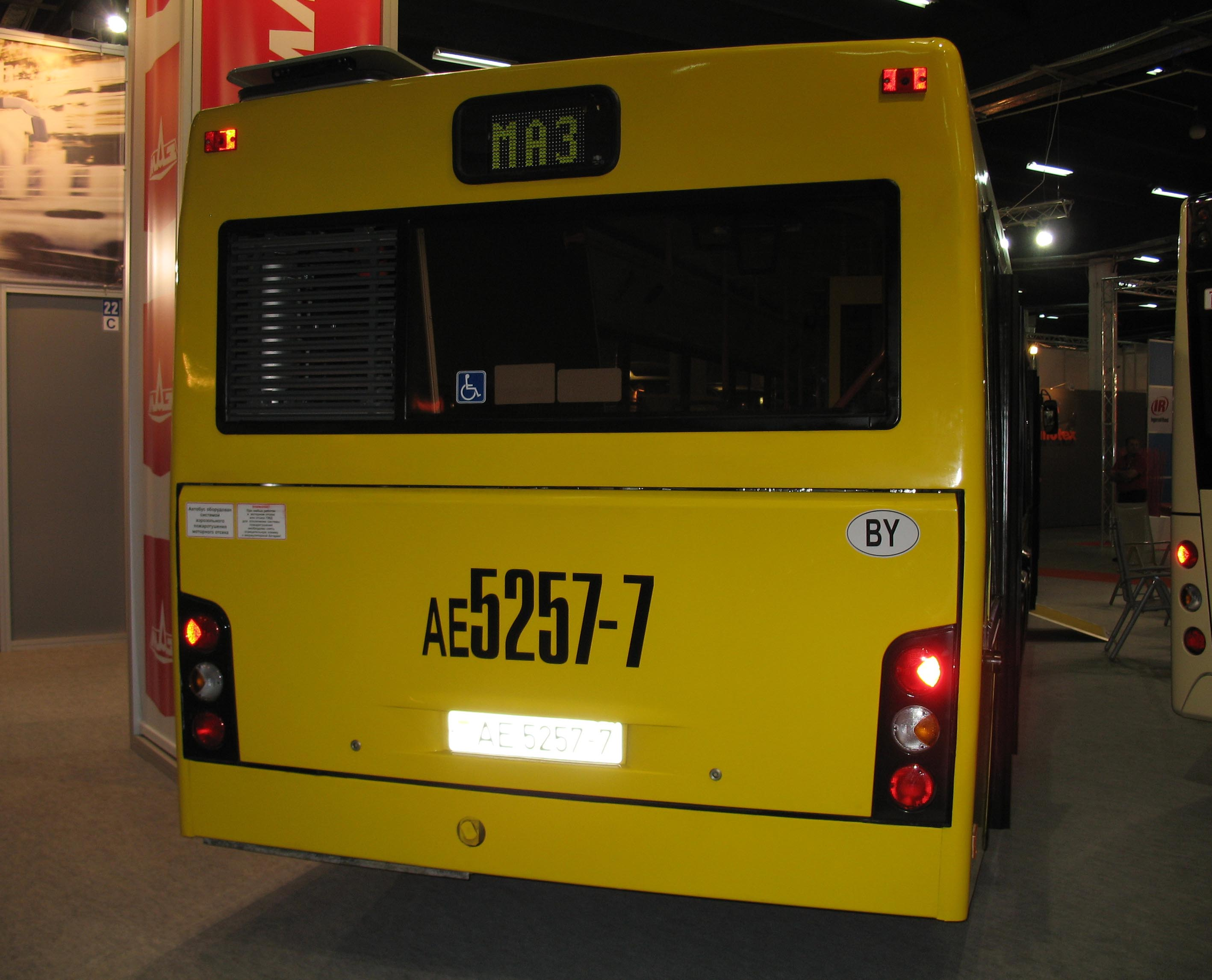 MAZ 107 bus (reg. AE 5257-7) in Kielce, Poland. Built 2008. Transexpo 2008.